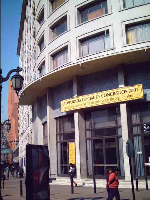 University of Chile Art Faculty (Facultad de Artes de la Universidad de Chile)